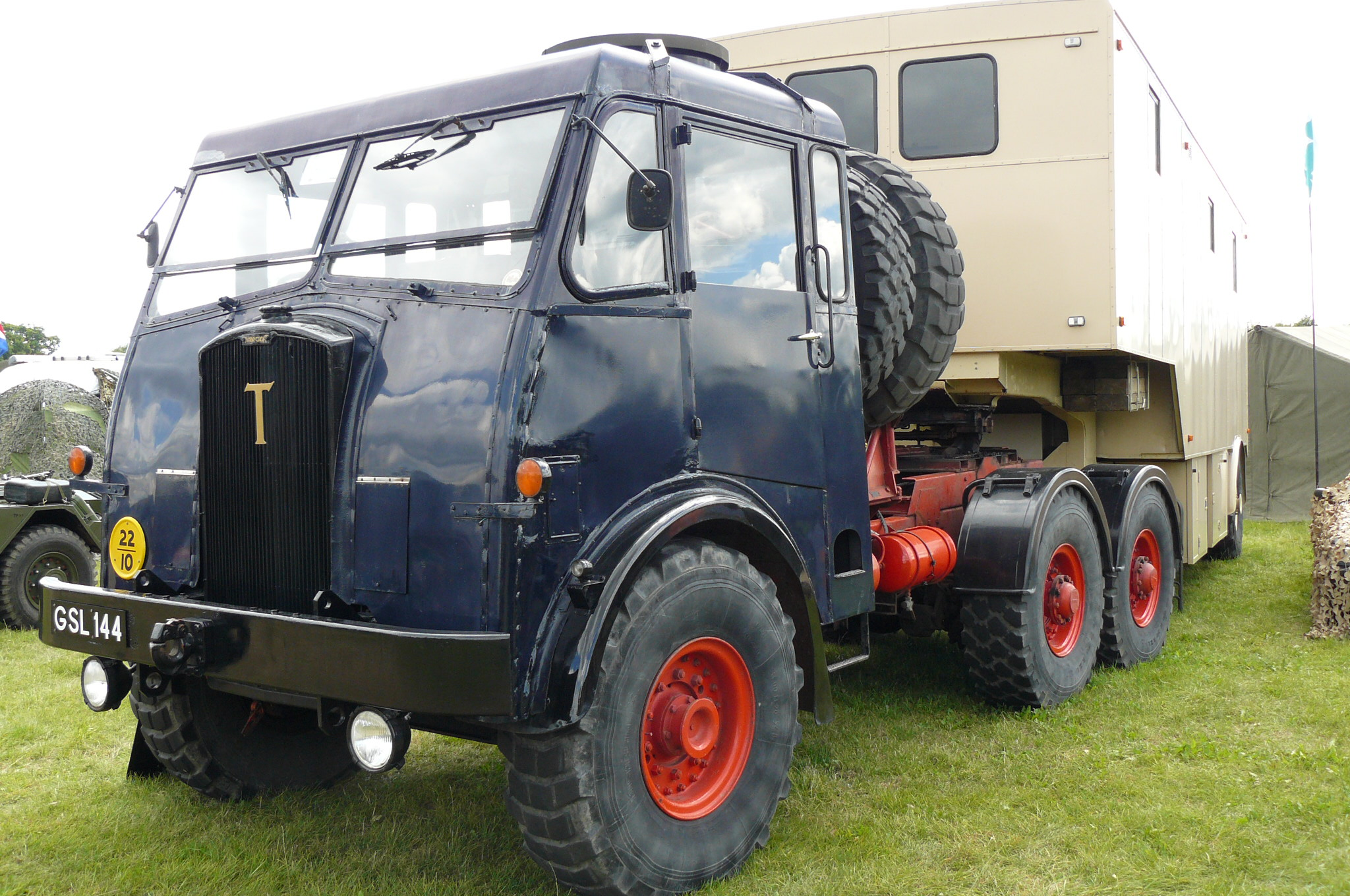 1953 Thornycroft Big Ben GSL144, seen at War & Peace show, July 2011